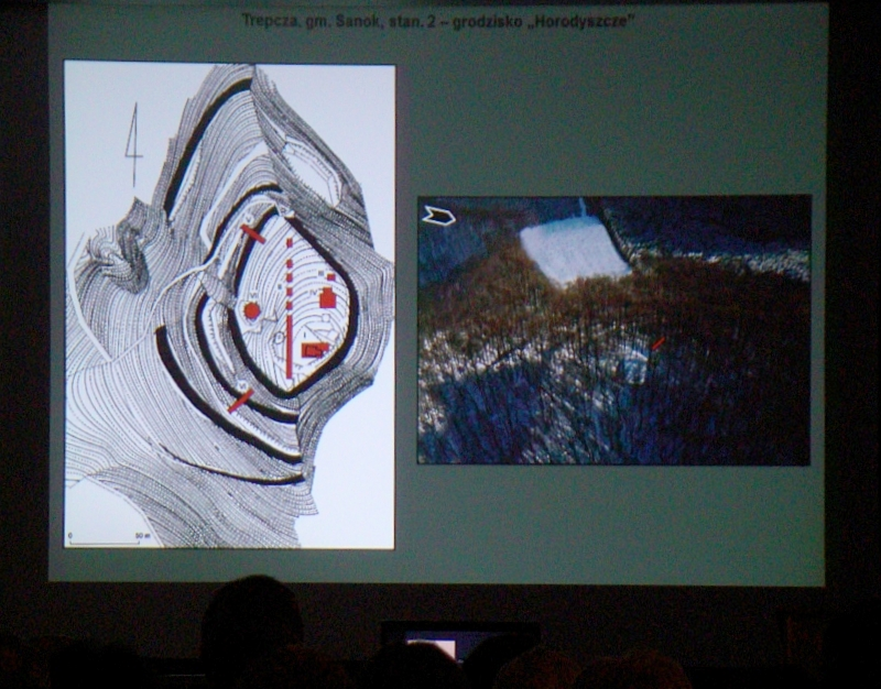 Trepcza (presentation of the results of archaeological research).0